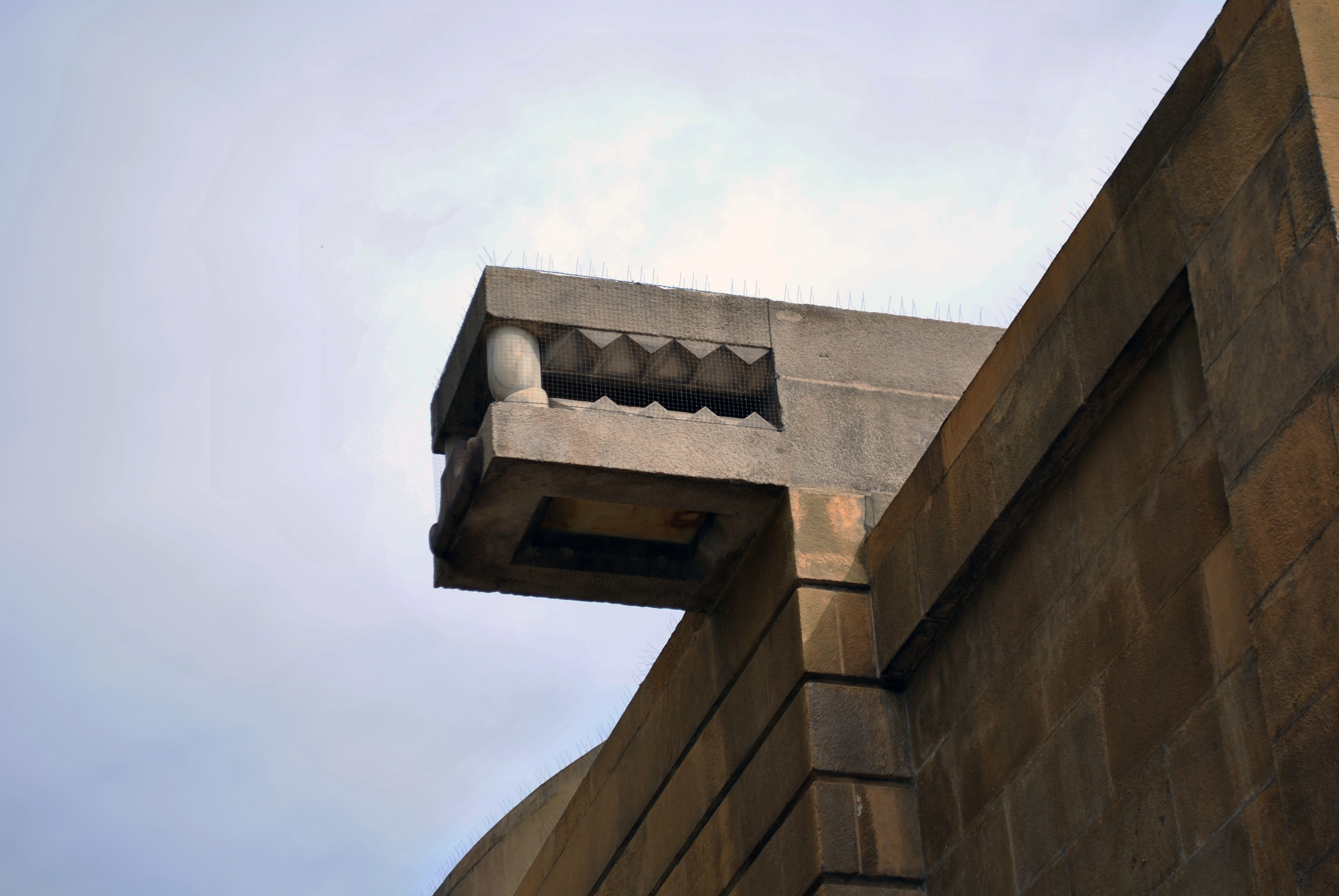 Gargoyle shaped like a serpent, Carcamo of Dolores. Bosque de Chapultepec, Second Section, Mexico City.